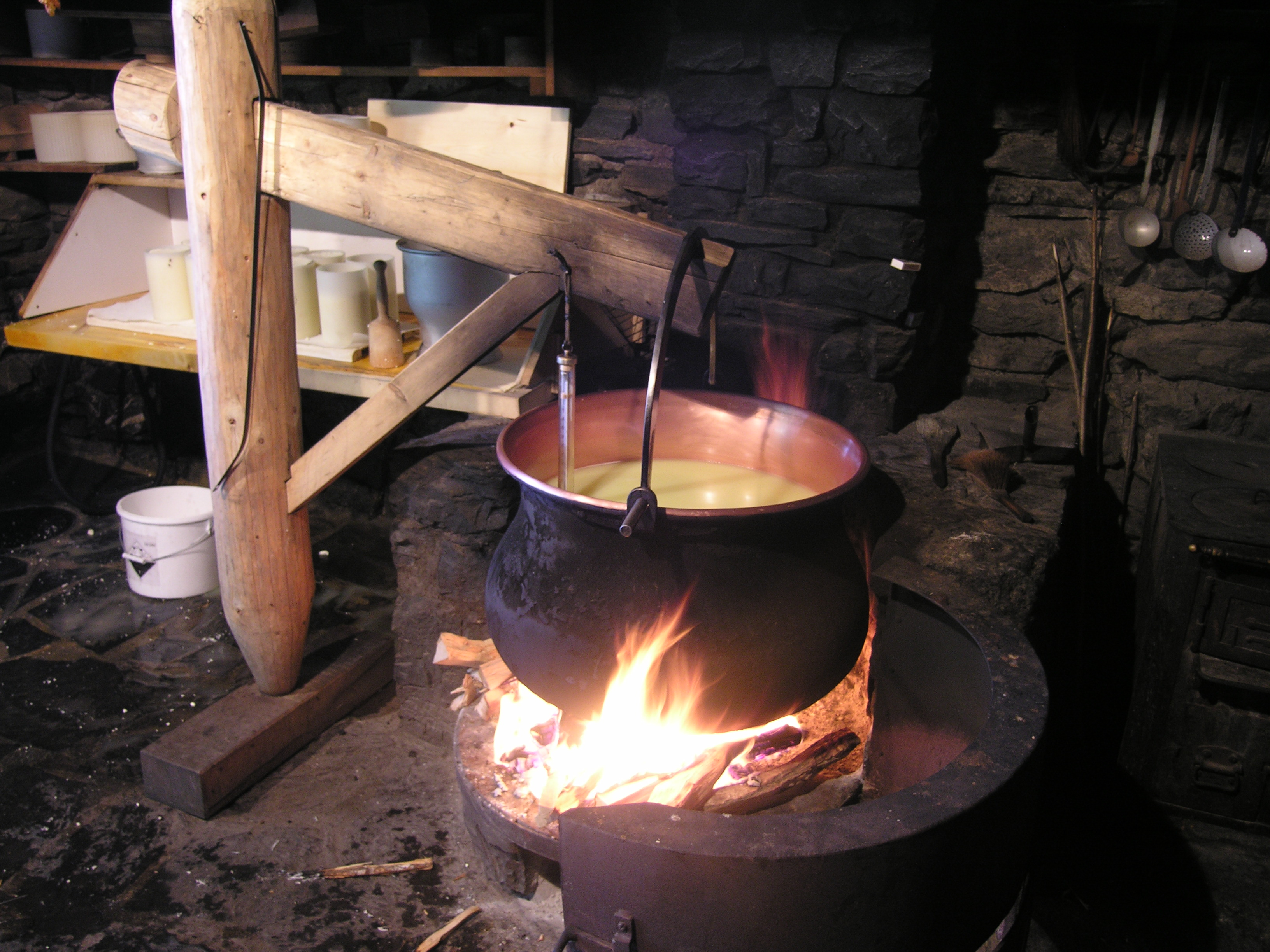 Cheese making using ancient Swiss method (heating stage)